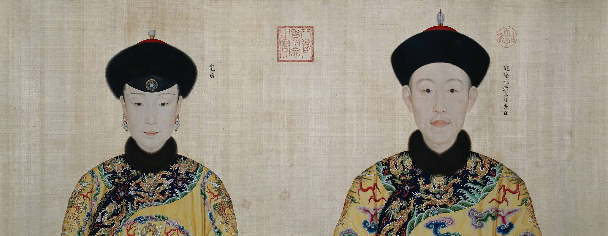 Inauguration Portraits of Emperor Qianlong, the Empress and Eleven Imperial Consorts